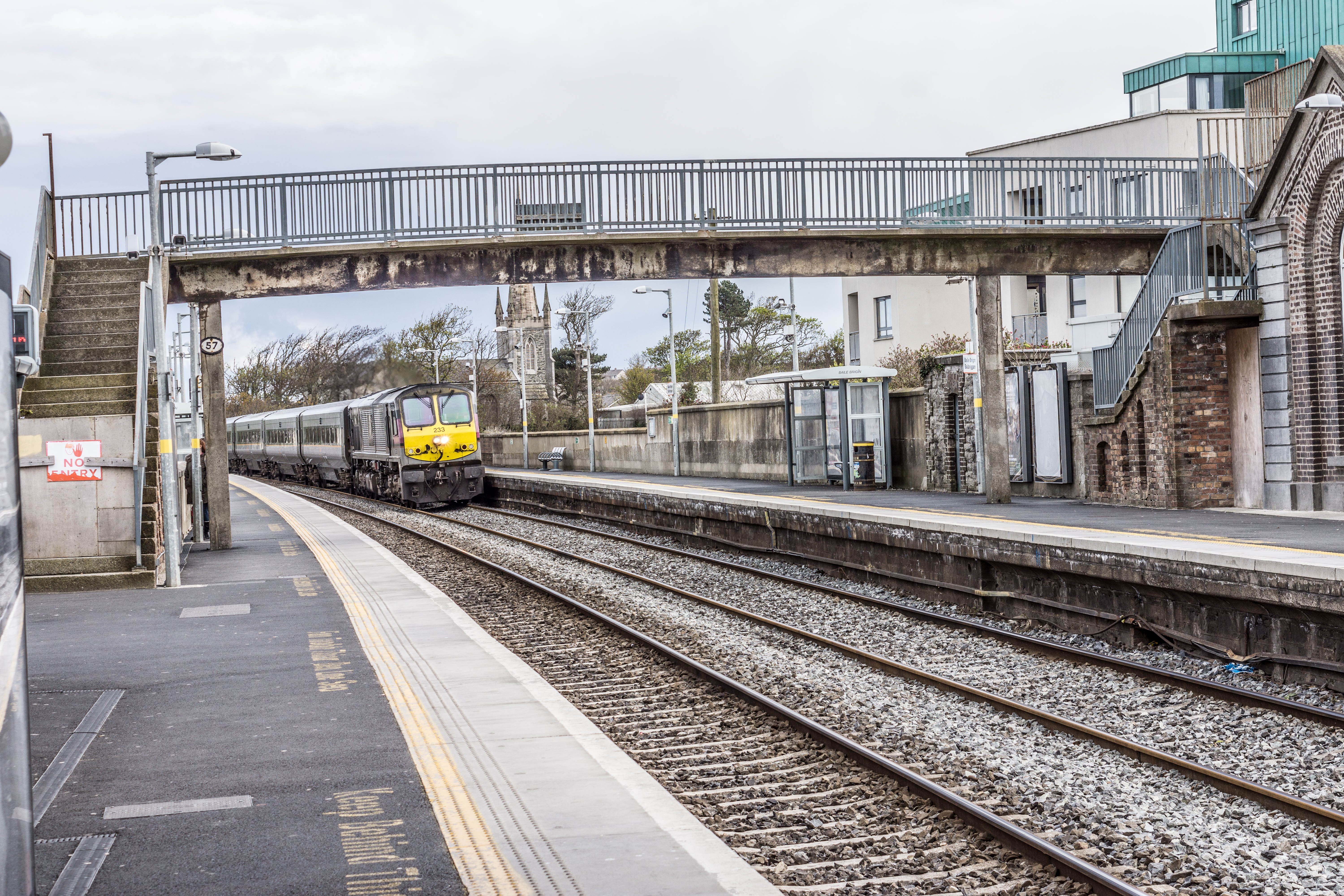 A train passing through Balbriggan railway station in County Dublin, Ireland.